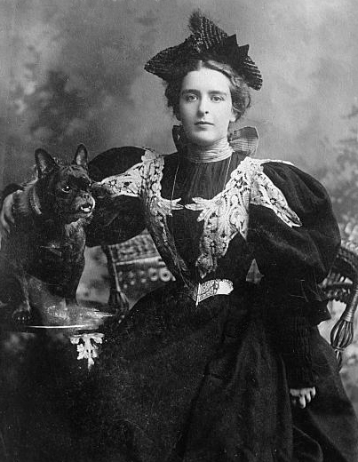 Natalie Clifford Barney with a pet dog